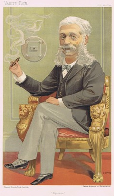 Caricature of The Baron AJ de Rothschild. Caption read "Alphonse".